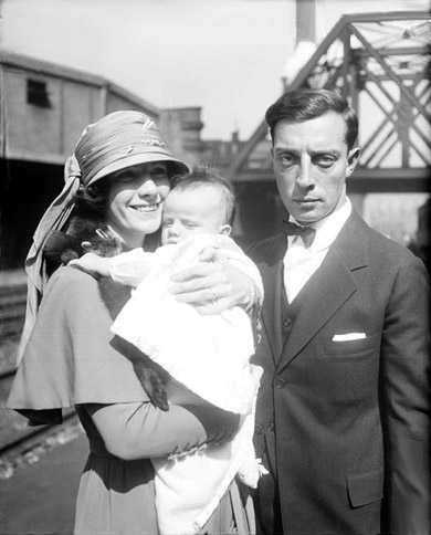 Informal portrait of Buster Keaton and Natalie Talmadge standing with their baby, Joseph Keaton, on the platform of a train station with a bridge in the background in Chicago, Illinois.